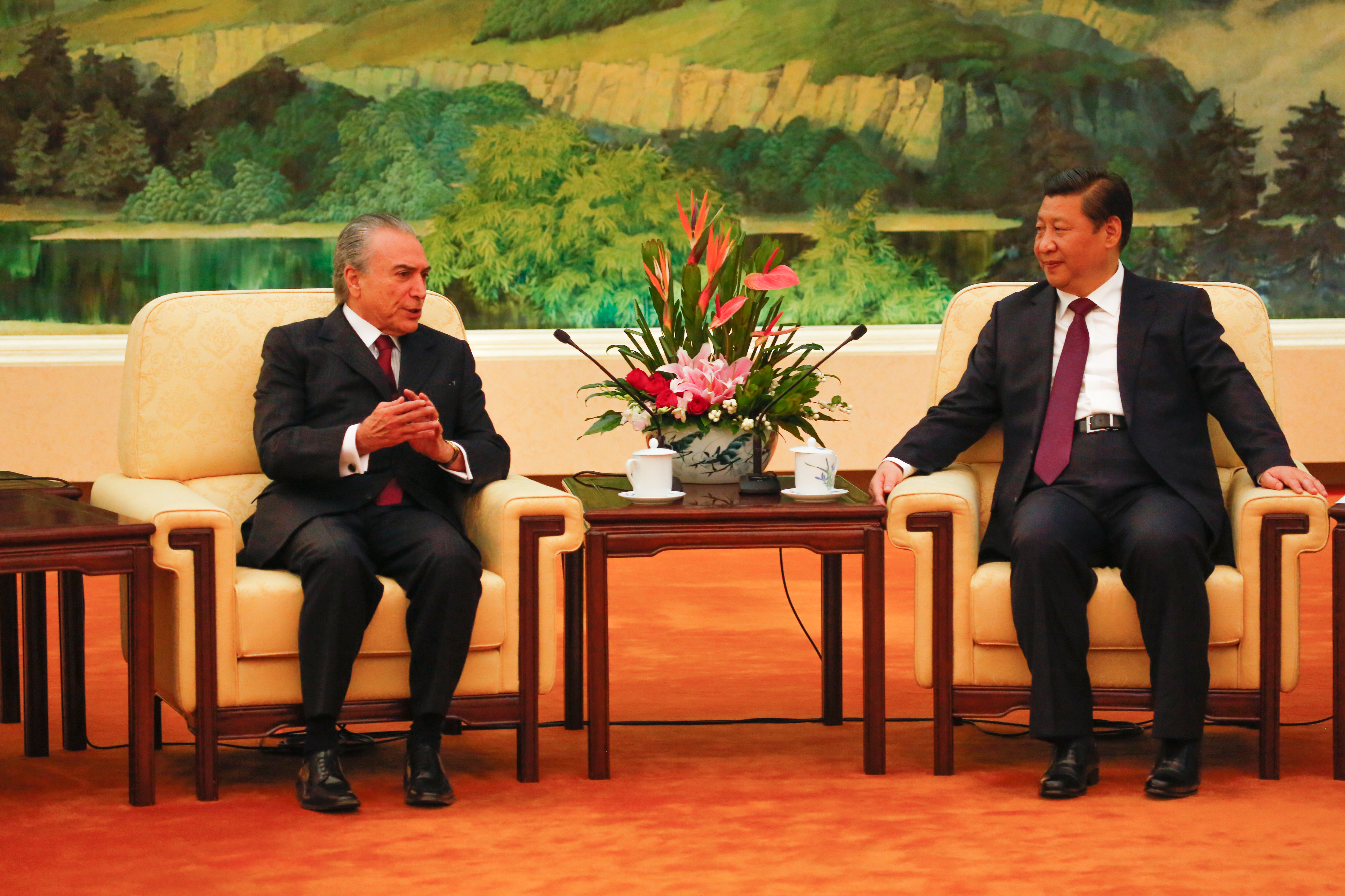 07-11-2013 - Pequim - Vice-presidente Michel Temer em encontro com o presidente da República Popular da China, no Palácio do Povo, Pequim.